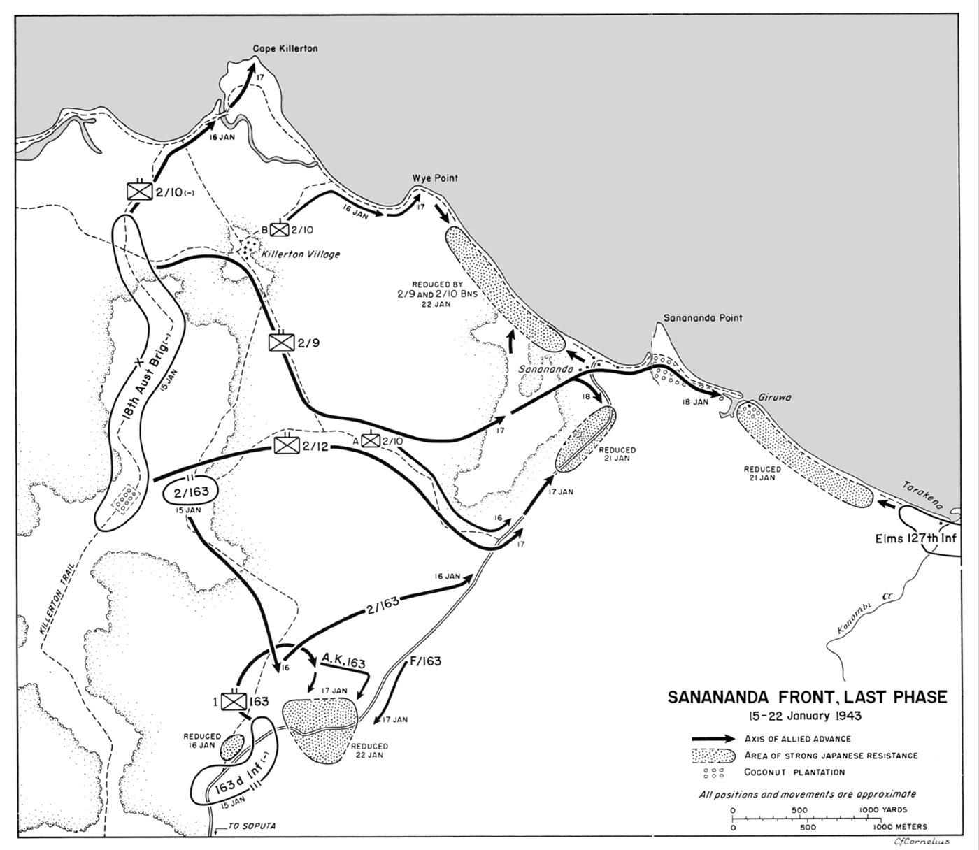 USA-P-Papua-17 Map 17 milner